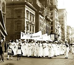 Norwegian-born suffragettes marching in New York City in 1911.